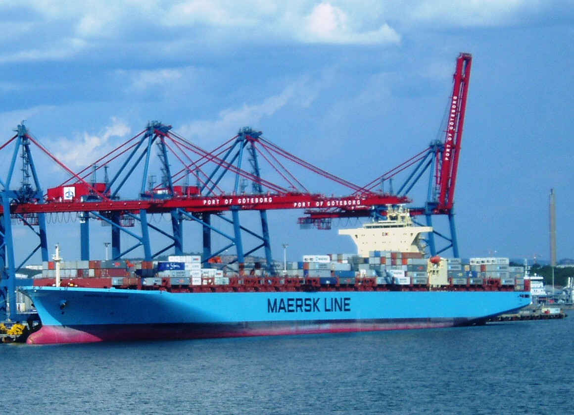 Feeder ship Maersk Venice and ocean going container ship Maersk Singapore in Port of Gothenburg.